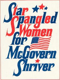 This is a cropped portion of the concert poster at File:Star-Spangled Women for McGovern-Shriver.jpg, highlighting the center art and title.